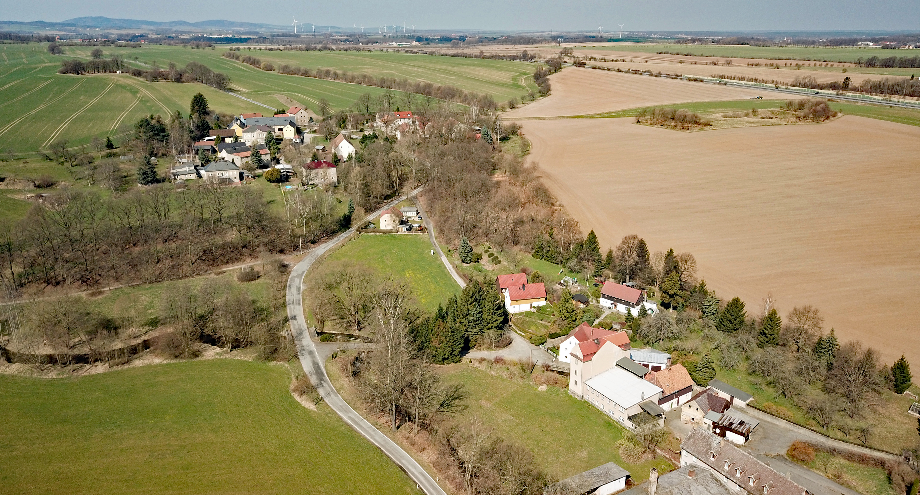 Coblenz (Göda, Saxony, Germany) Hornjoserbsce: Powětrowy wobraz Koblic